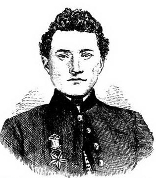 Illustration from Theophilus Francis Rodenbough's 1886 book, “Uncle Sam’s Medal of Honor" of Corp. Patrick H. Monaghan, 48th Pennsylvania Infantry. A native of County Mayo, Ireland, Monaghan fought for the Union Army during the American Civil War, and was awarded the U.S. Medal of Honor on December 1, 1864 for his gallantry at Petersburg, Virginia on June 17, 1864 when he recaptured the regimental flag of the 7th New York Heavy Artillery which had fallen into the hands of Confederate troops the day before.